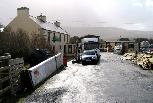 Glenamoy Post Office and Filling Station, Mayo Looks like it may be a post office, filling station, builders merchants and who knows what else!